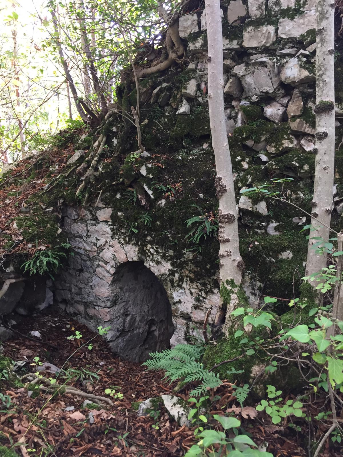 Attimis Inf